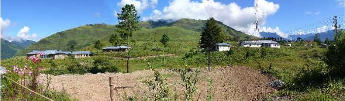 A panoramic view of Anini.